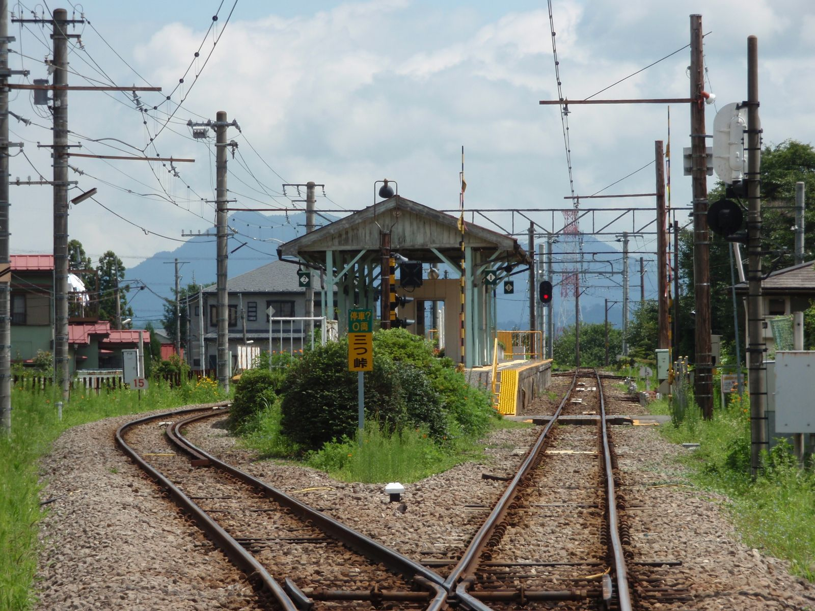 View of the platforms and tracks at Mitsutōge Station on the Fujikyuko Line looking east